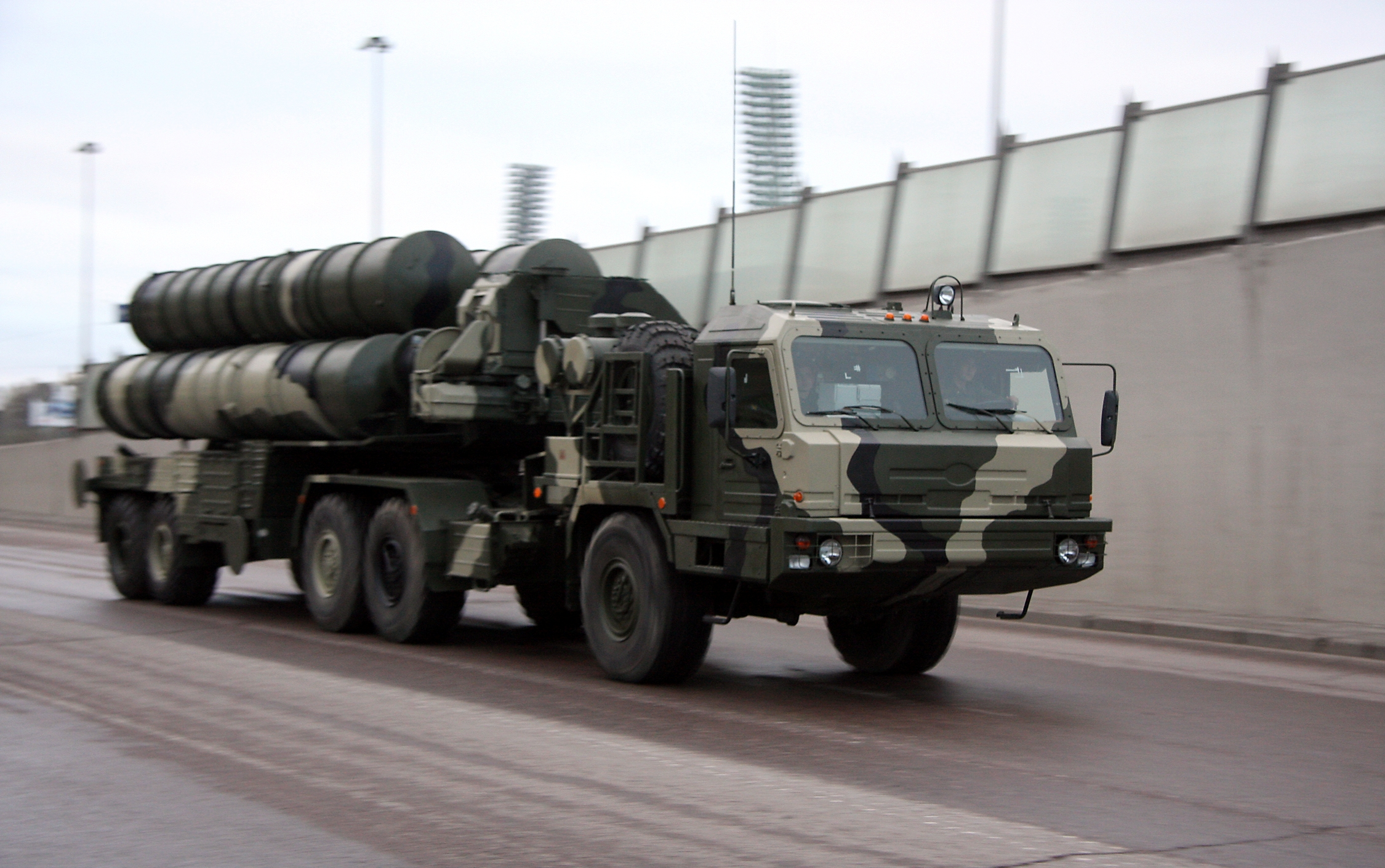 S-400 Triumf SAMs during the rehearsal for 2009 Victory Day parade in Moscow.